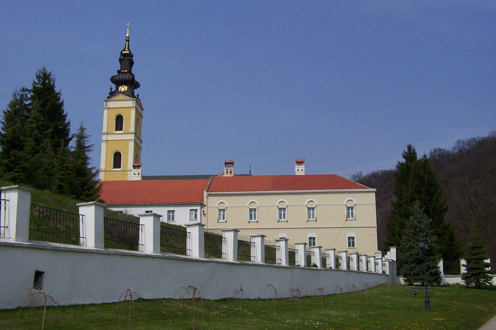 Monastery Grgeteg, Fruška Gora, Serbia